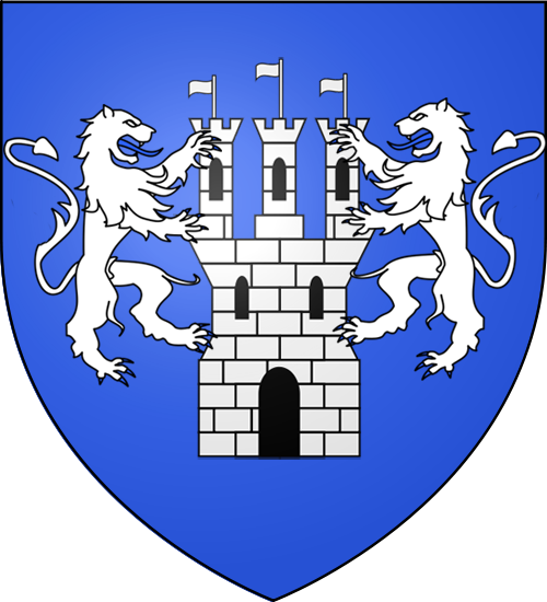 Coat of arms of the O'Kelly.